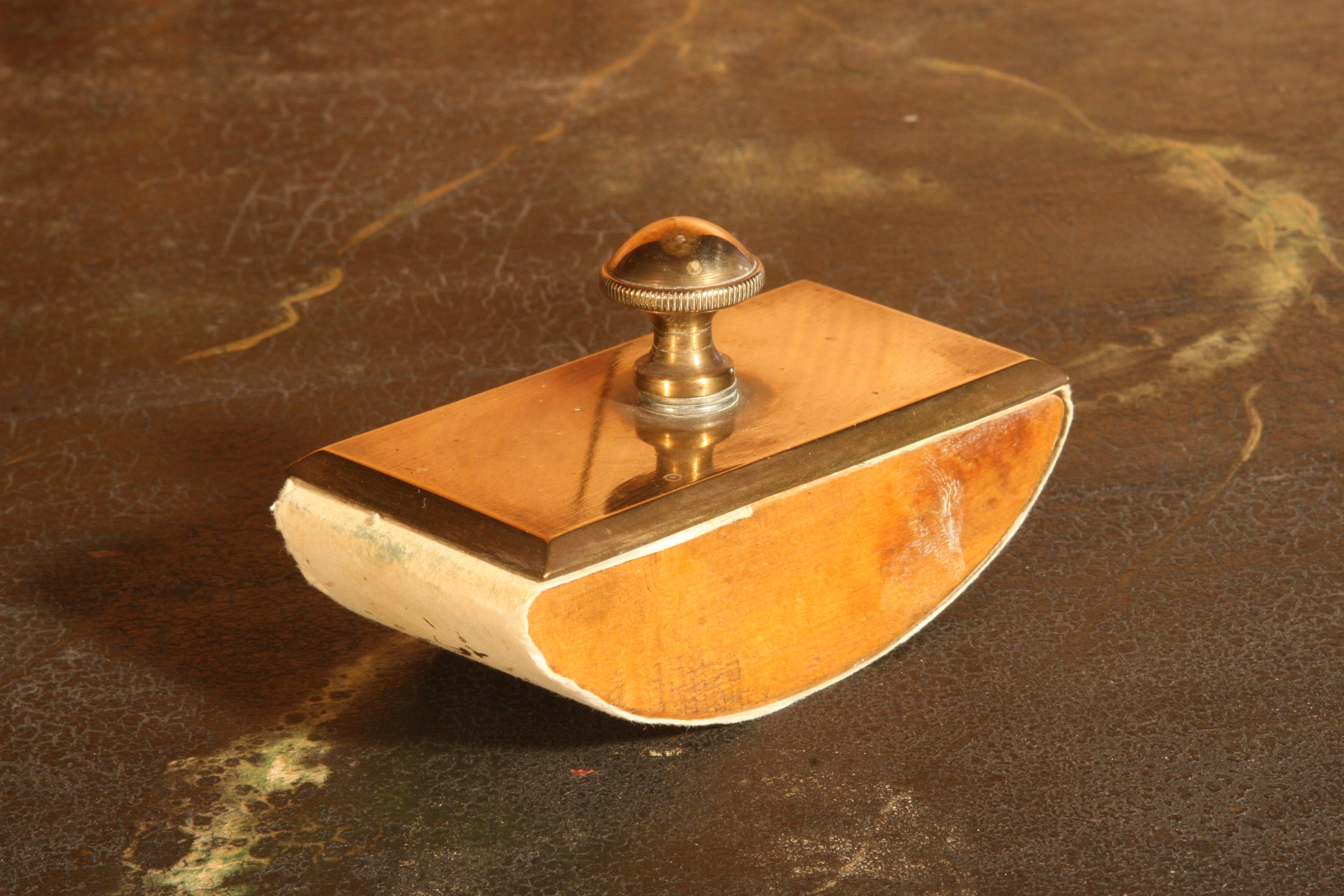 Rocker blotter